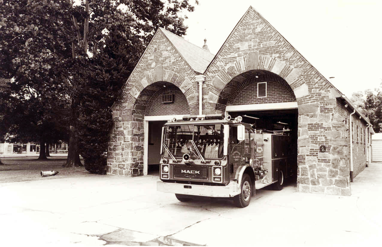 BFRS Fire Station 12 (Woodlawn Station 1980's)